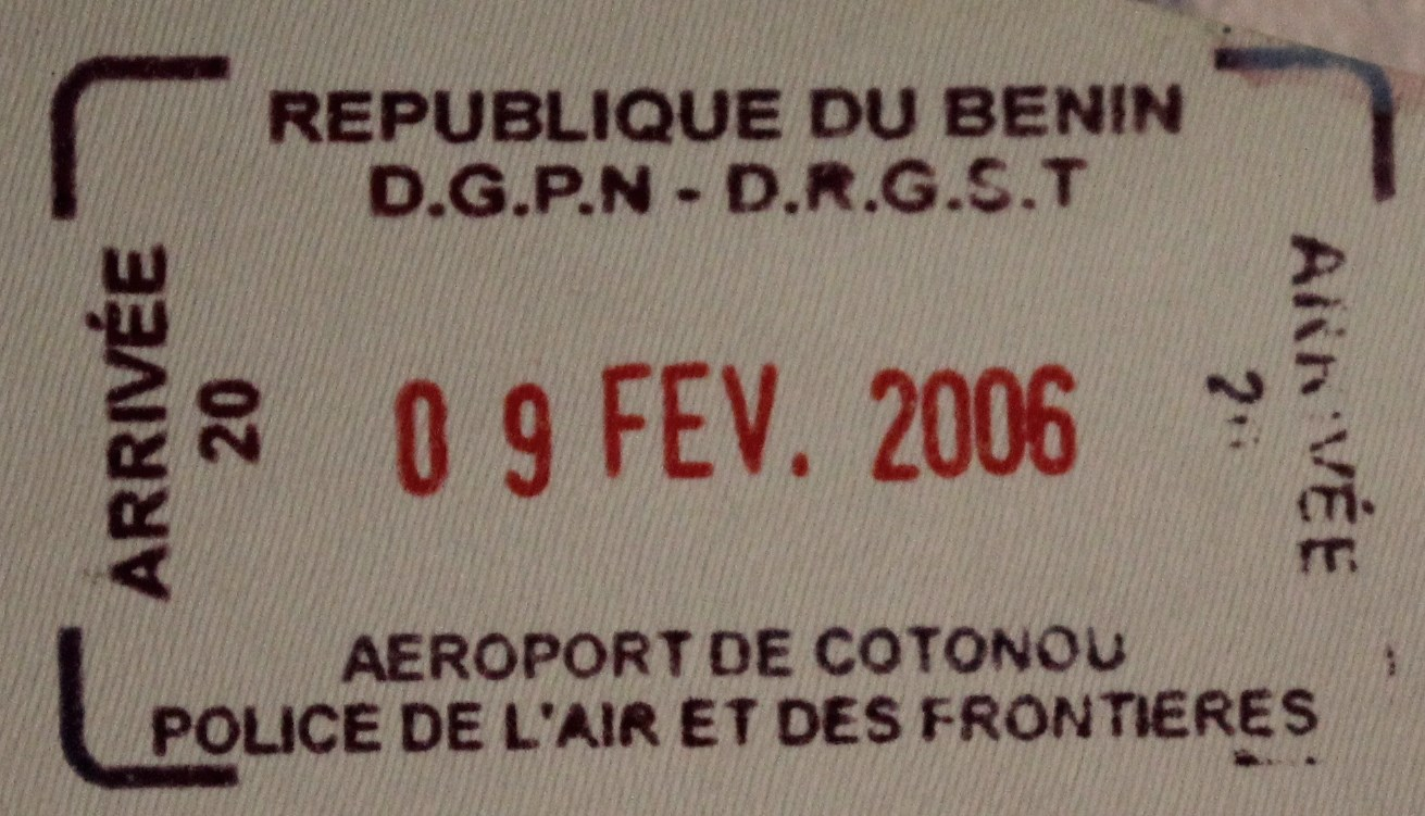 Benin Entry Stamp - Cotonou International Airport